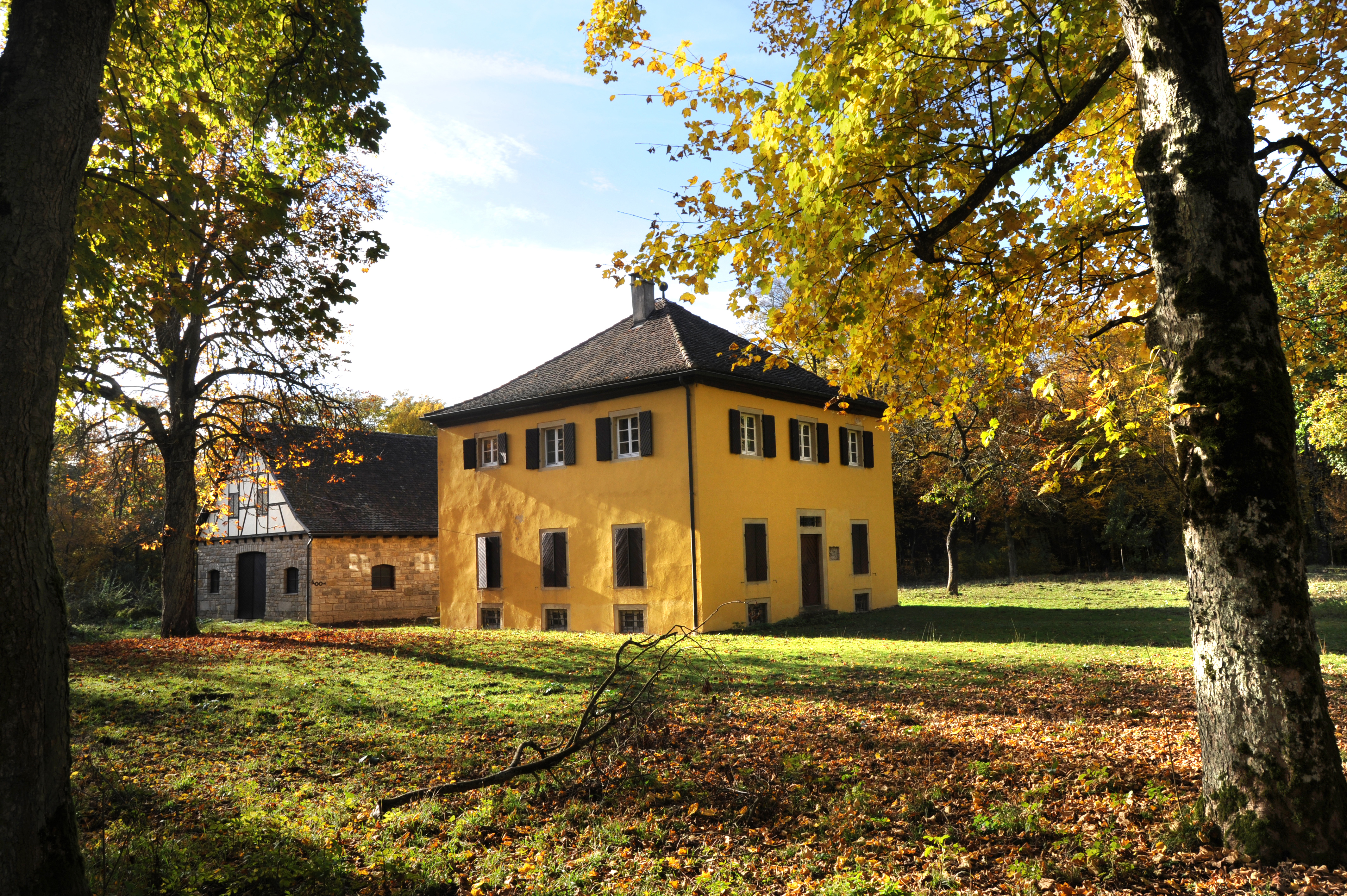 The Karlsberg in Weikersheim.